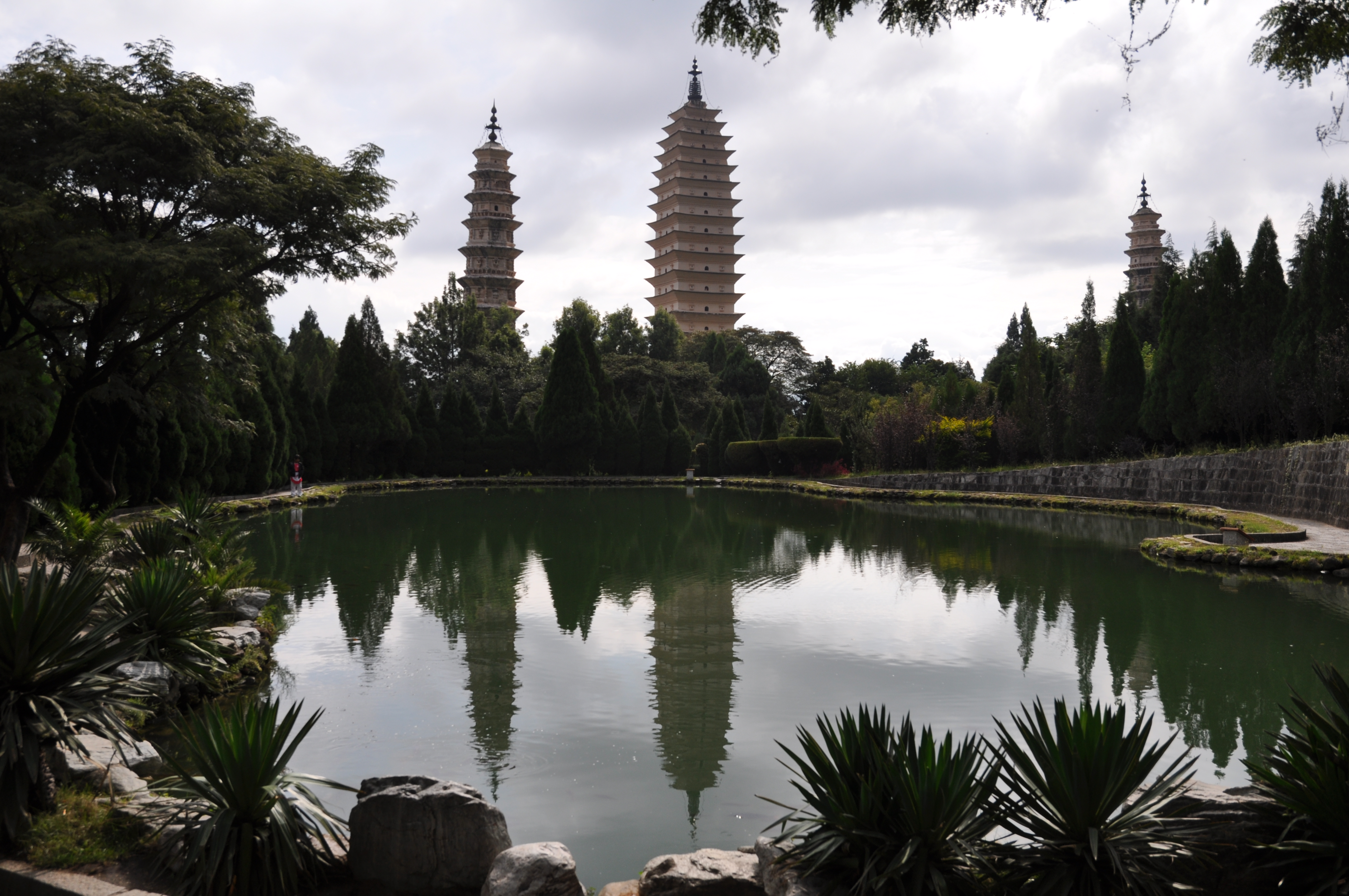 San Ta Si (Dali)